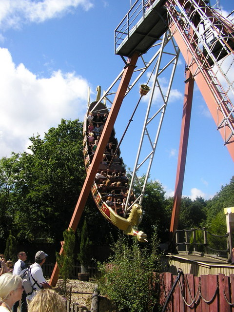 Robin Hill Park. This is the Pirate Ship ride (Colossus?) at Robin Hill Park